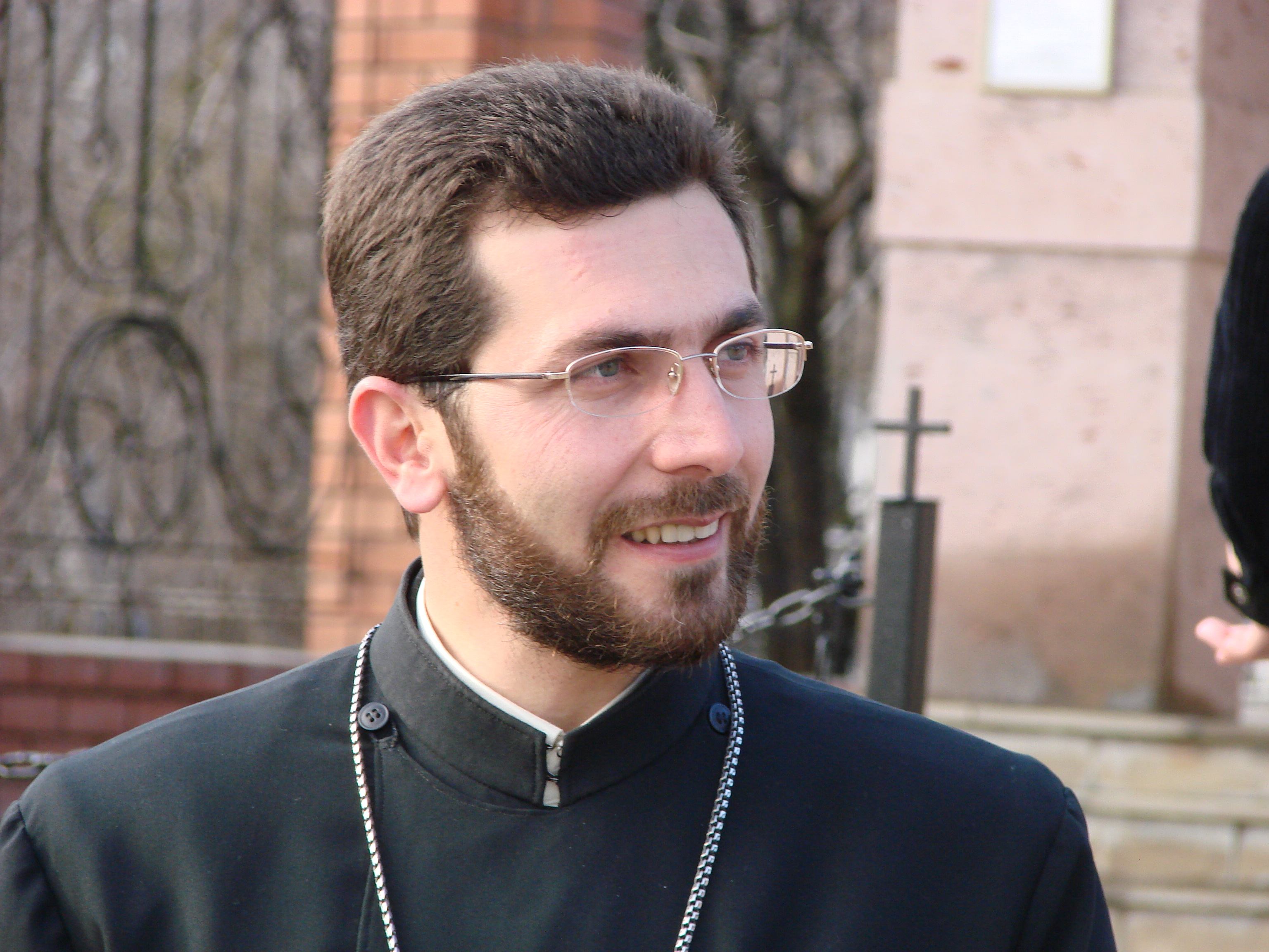 Prior of Sourb Gevorg armenian church in Volgograd, Father Malakhia